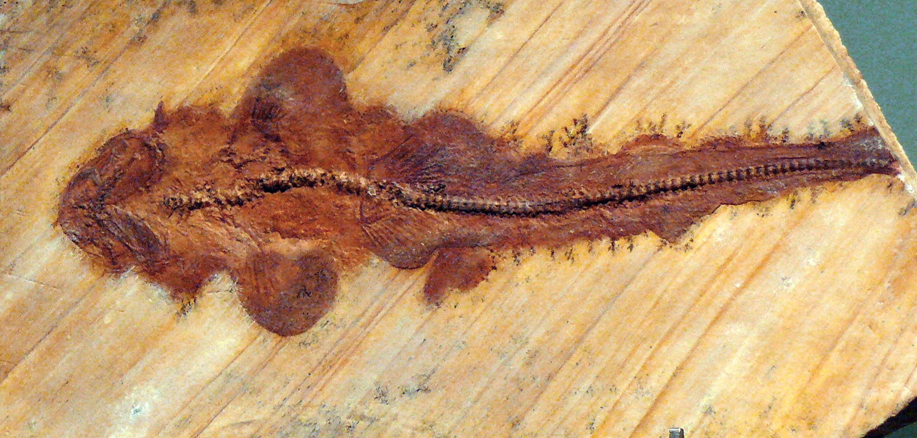 Phorcynis catulina